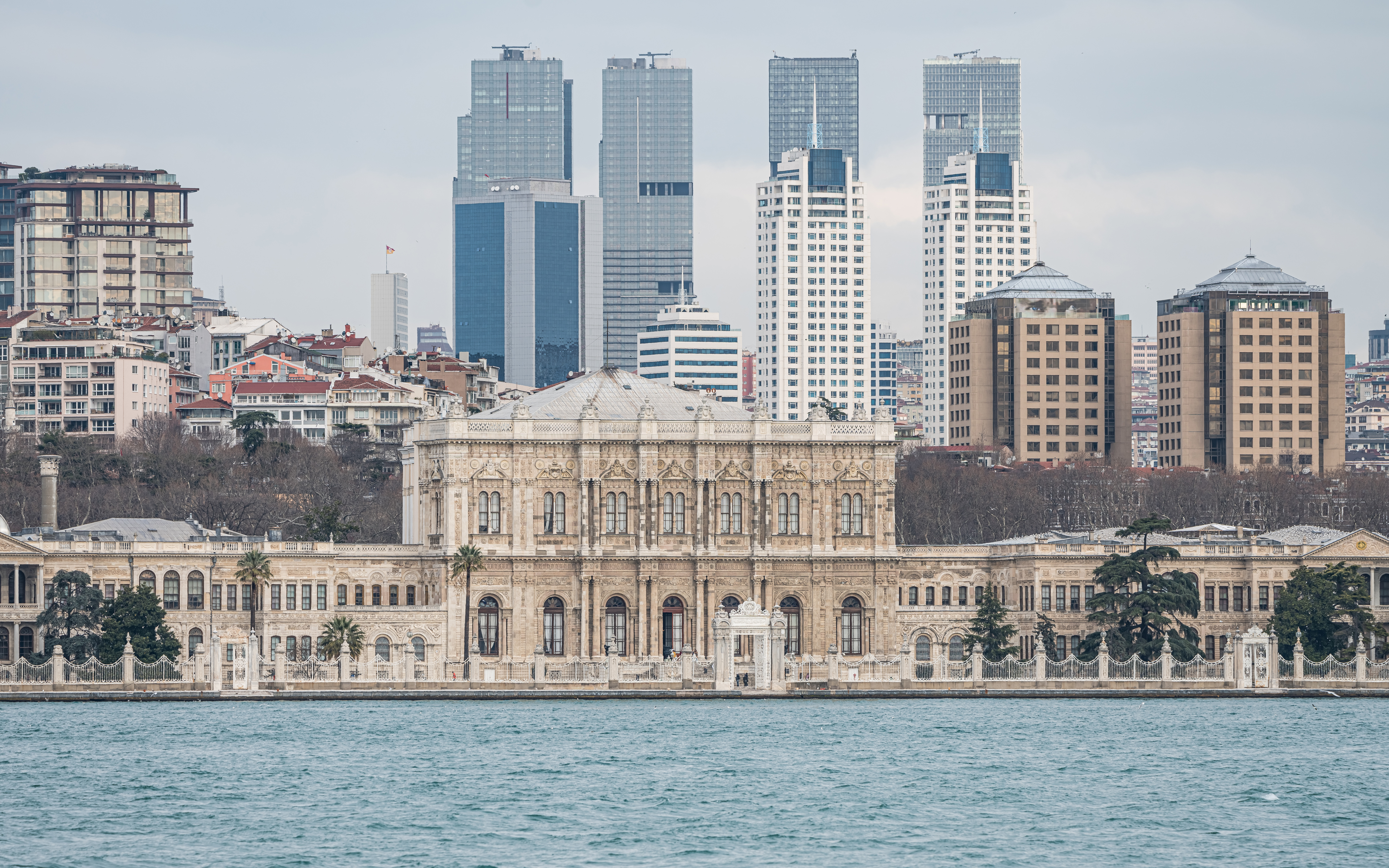 Remote view of Dolmabahçe Palace in Istanbul, Turkey